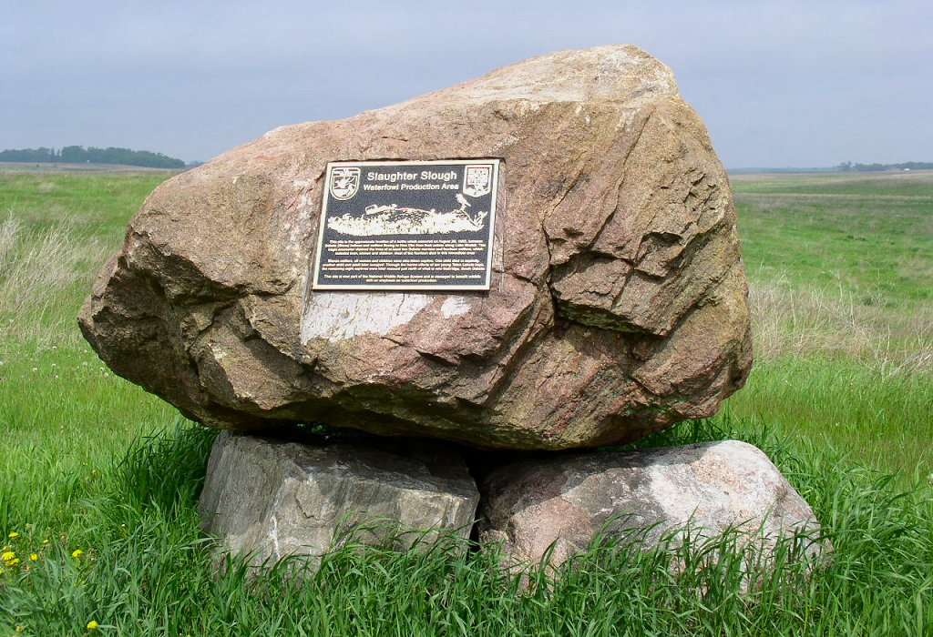 Memorial to victims of the Dakota War of 1862, Slaughter Slough Waterfowl Production Area, Windom Wetland Managment District, Murray County, Minnesota, USA